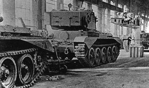 Charioteers nearing completion in the Robinson & Kershaw Ltd plant in Dukinfield, Chesire